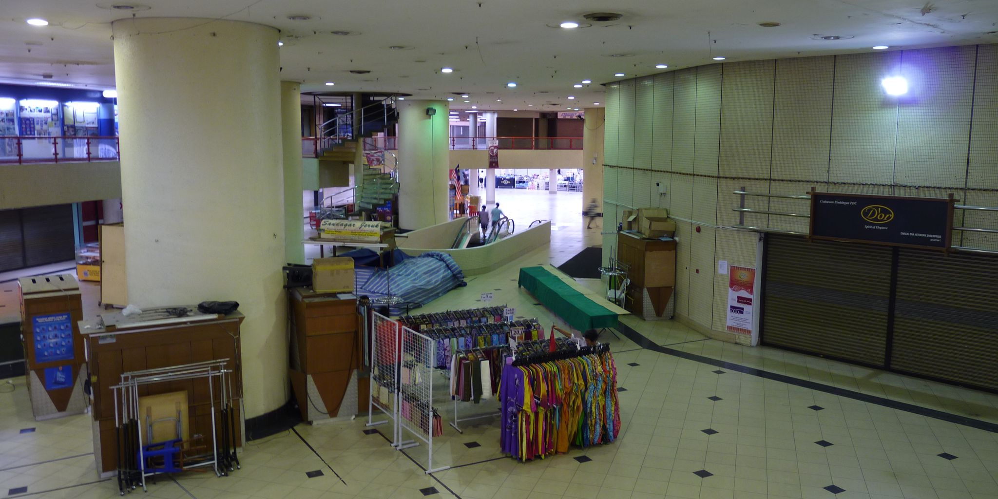 Atrium of KOMTAR in Penang in Feb 2011.